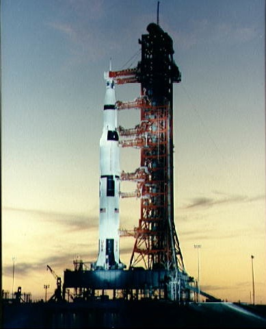 Ground level view of Apollo 8 space vehicle at Pad A, Launch Complex 38